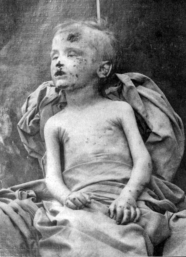 Child victim of sexual murder (teenage boy)